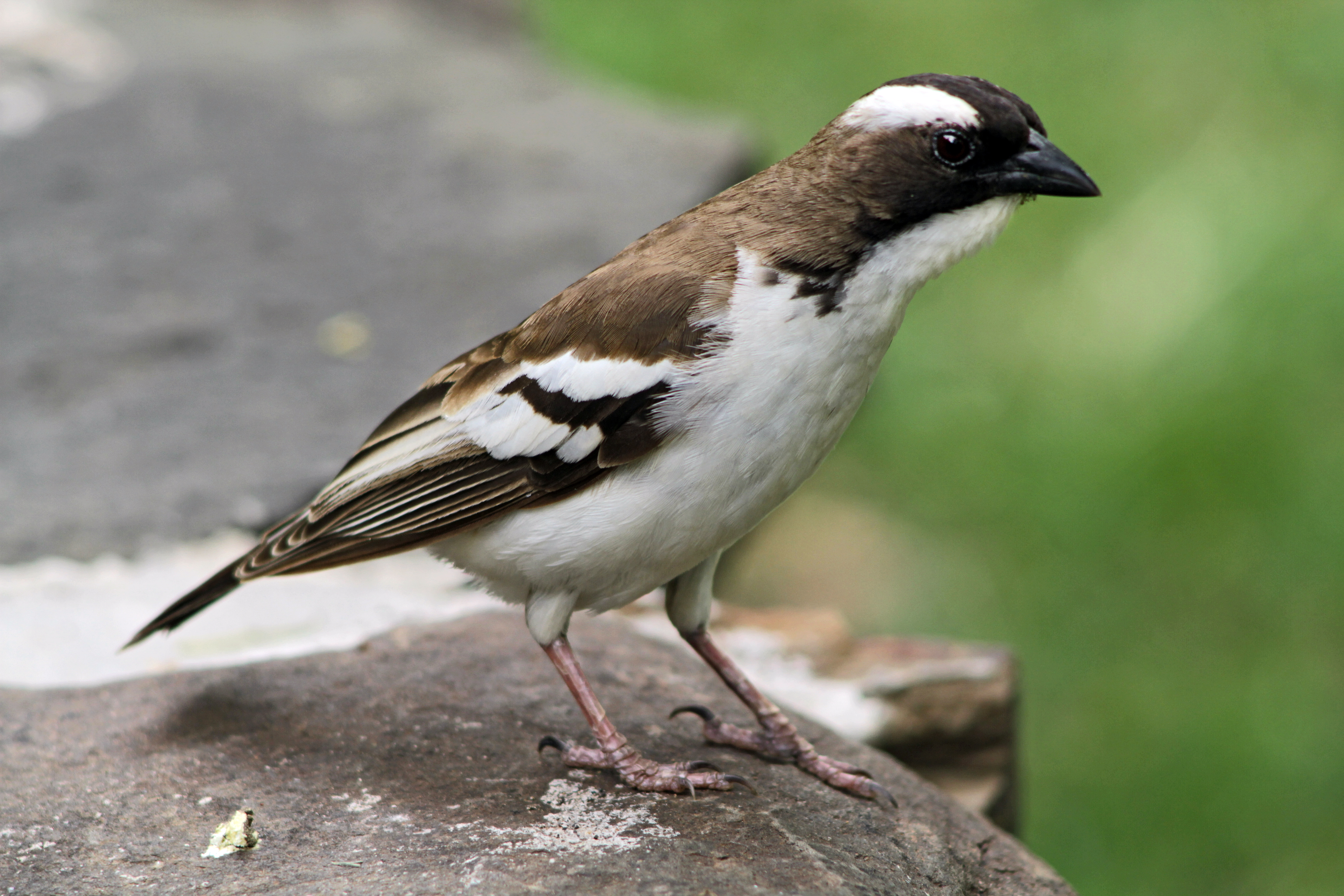 A male White-browed Sparrow-weaver near Baringo Lake, Kenya.